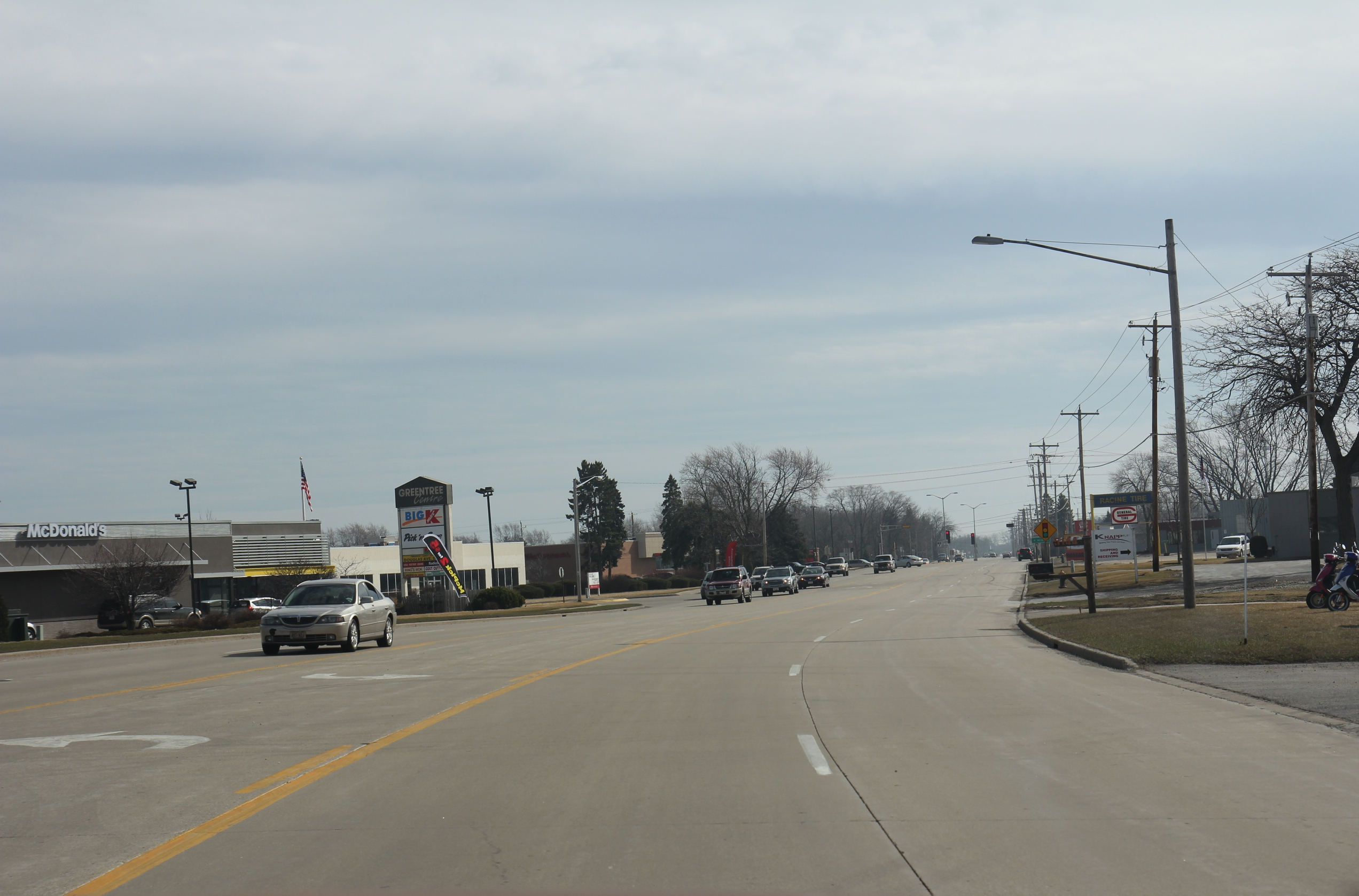 Wisconsin Highway 32 looking southerly at 4 Mile Road in Caledonia, Wisconsin.